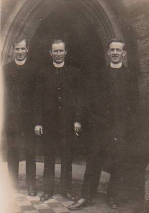 Three priests standing outside St Annes' RC Church, Ugthorpe, North Yorkshire. (circa 1927-1937)